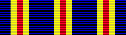 I made this image with Photoshop. Vietnam Civilian Service Medal Ribbon